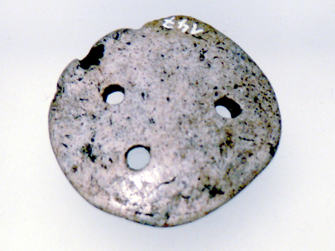 Archaeological museum Gunzenhausen ( Bavaria ). Amulet from LaTene-period ( 450-15 BC )